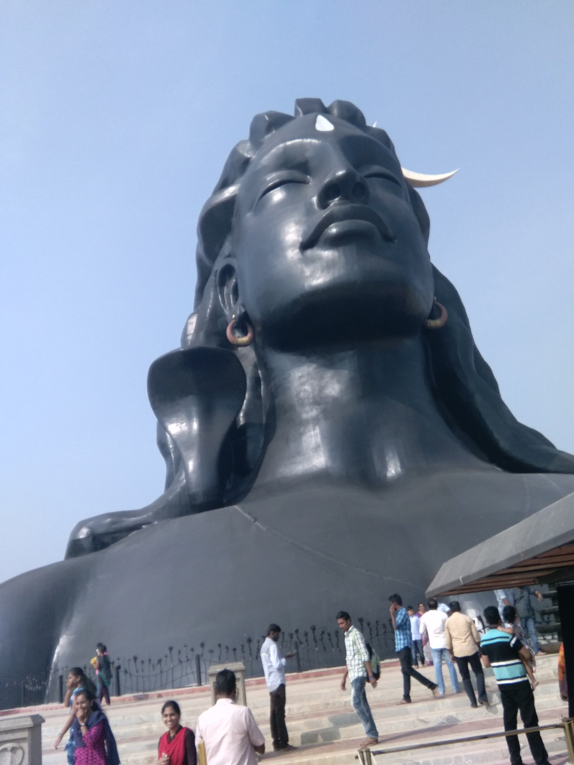 lord shiva